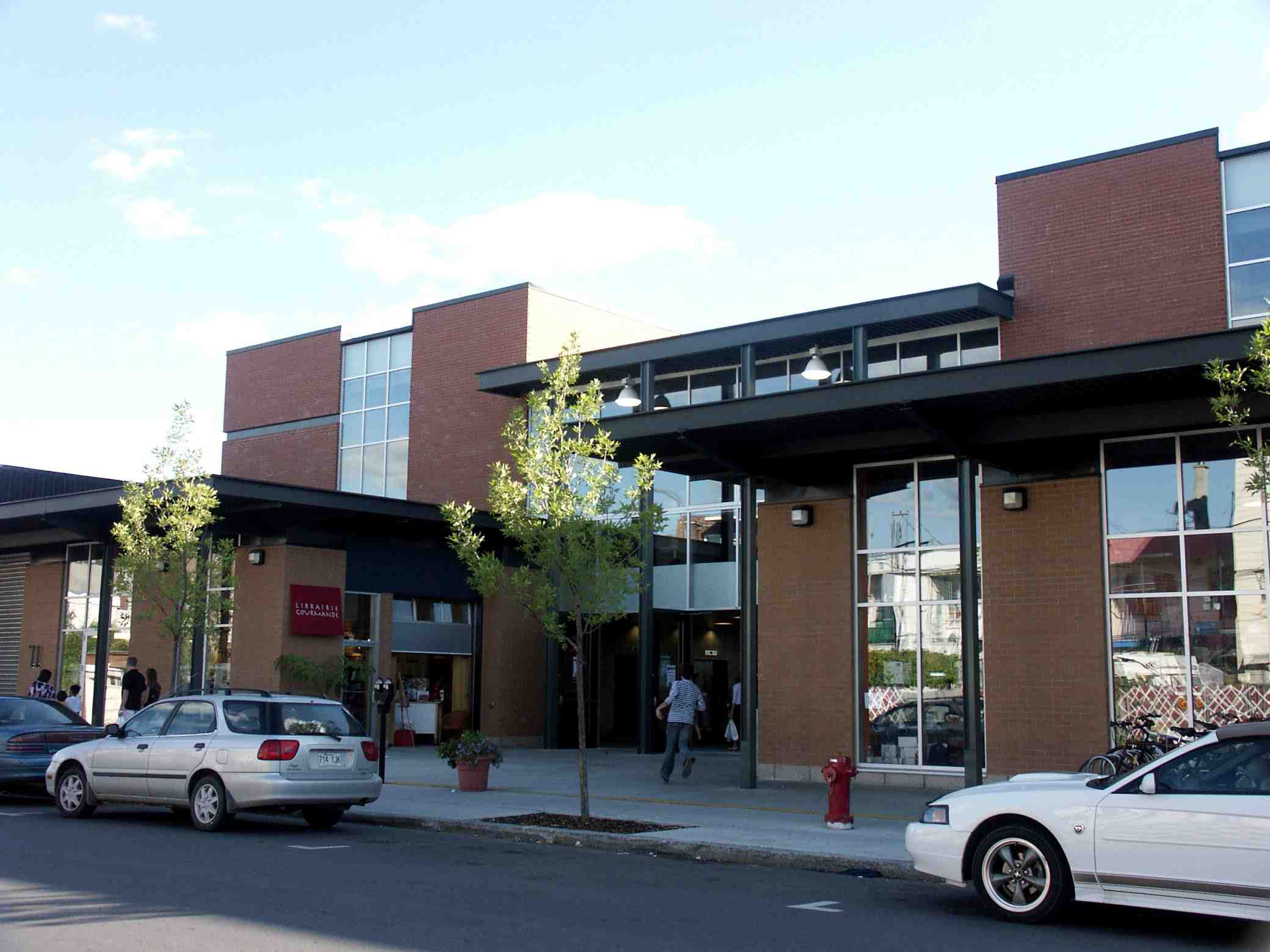 Jean-Talon public farmers' market, in Montréal, September 2005. Photo by User:Gene.arboit.